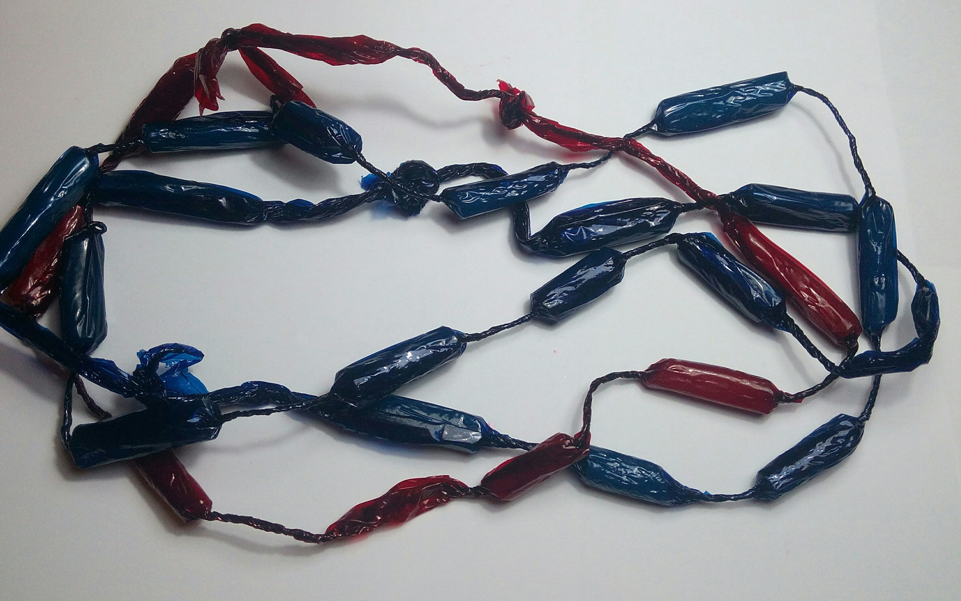 These candy necklaces are a typical sweetmeat in Madeira Islands (Portugal)'s folk fesivities.